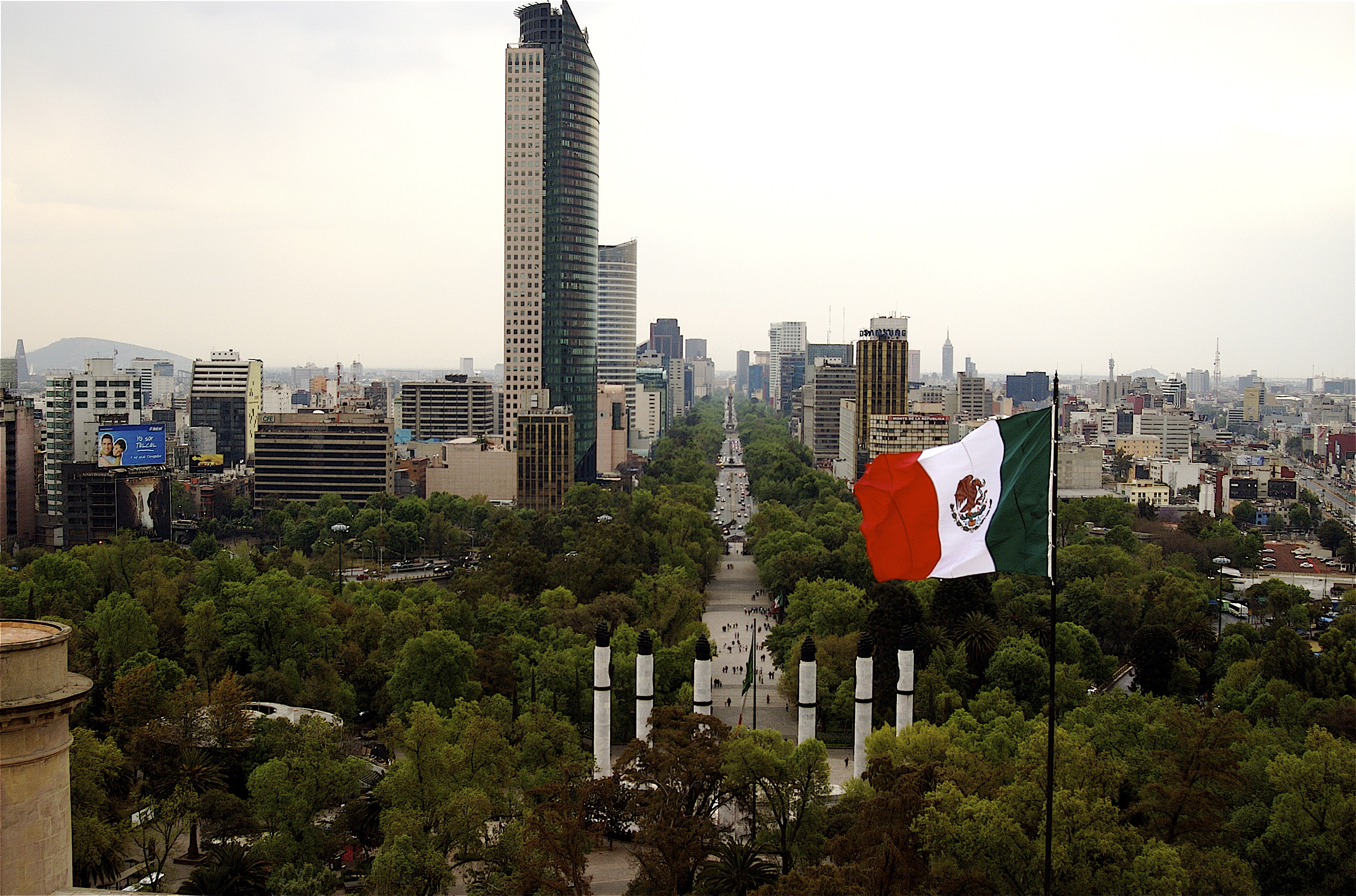 Paseo de la Reforma, Mexico City